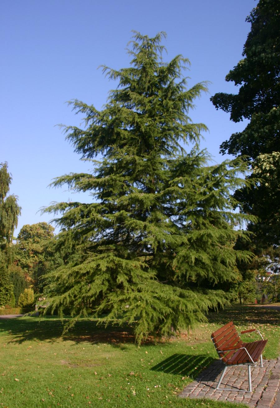 Cedrus deodara: Habit (young tree)